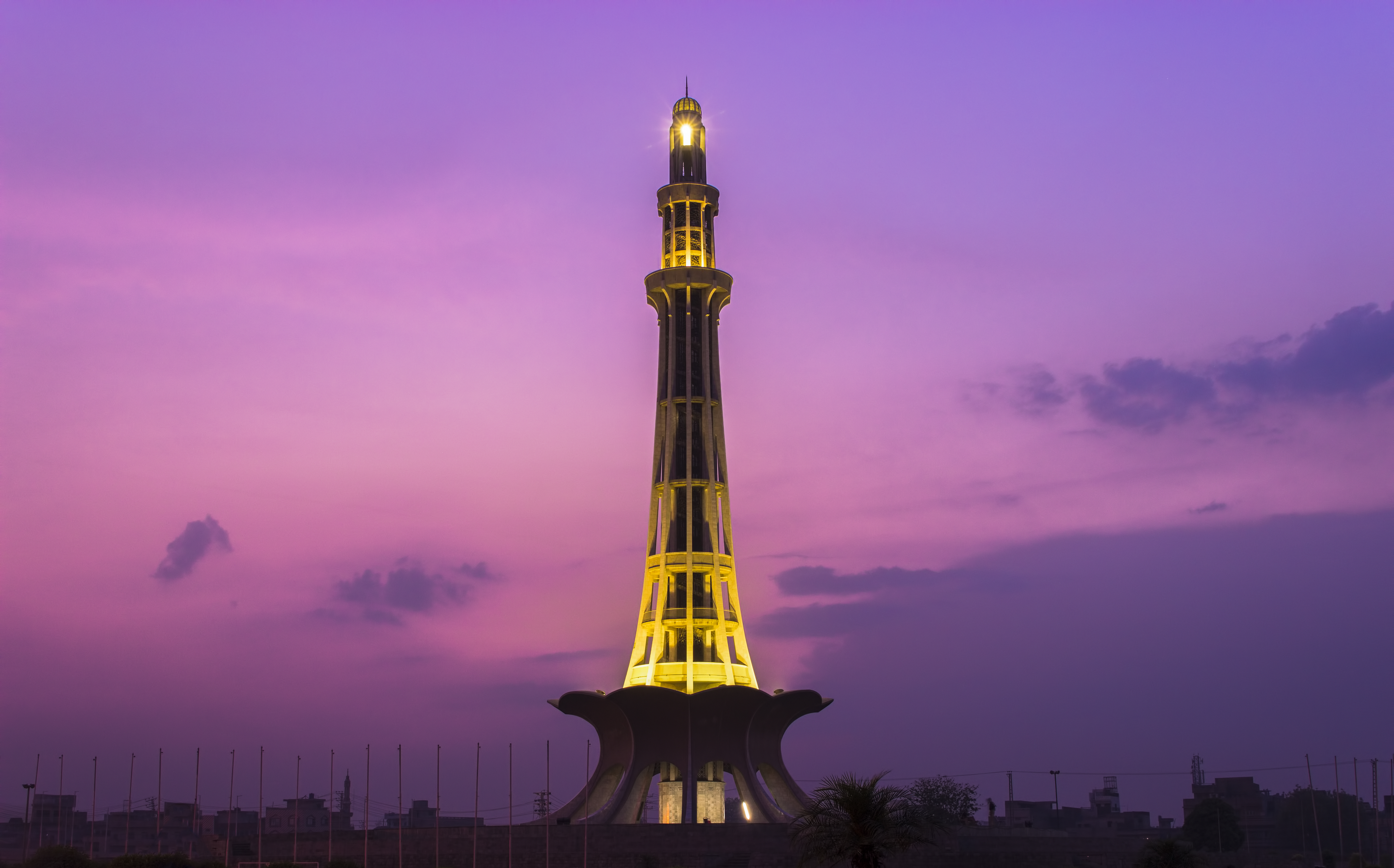 Photograph of Minar-e-Pakistan, Lahore,Pakistan This is a photo of a monument in Pakistan identified as the PB-73